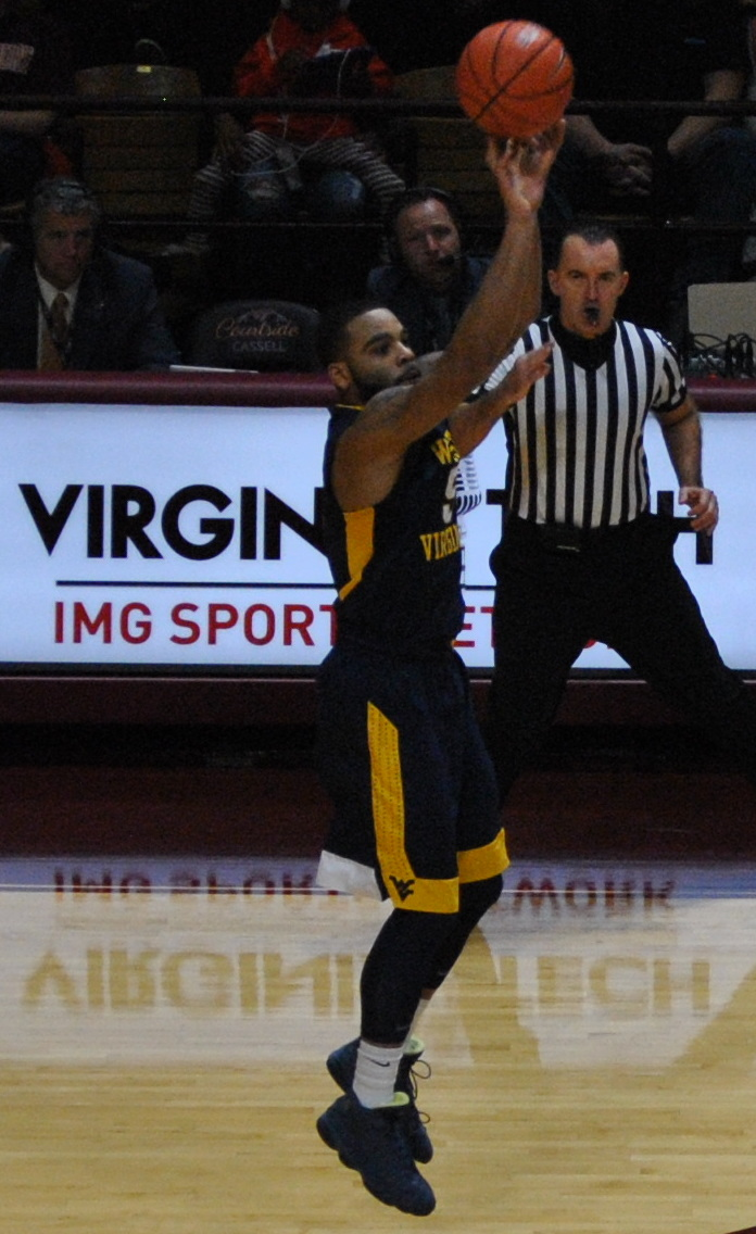 Jaysean Paige fires a three for the Mountaineers.